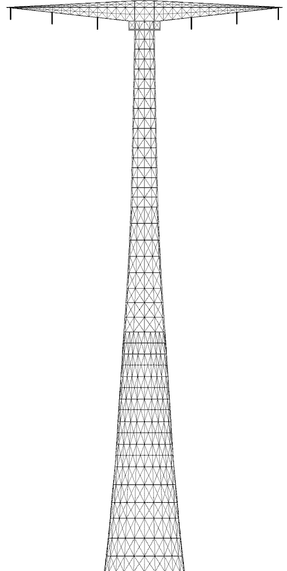 Drawing of Cadiz Pylon.